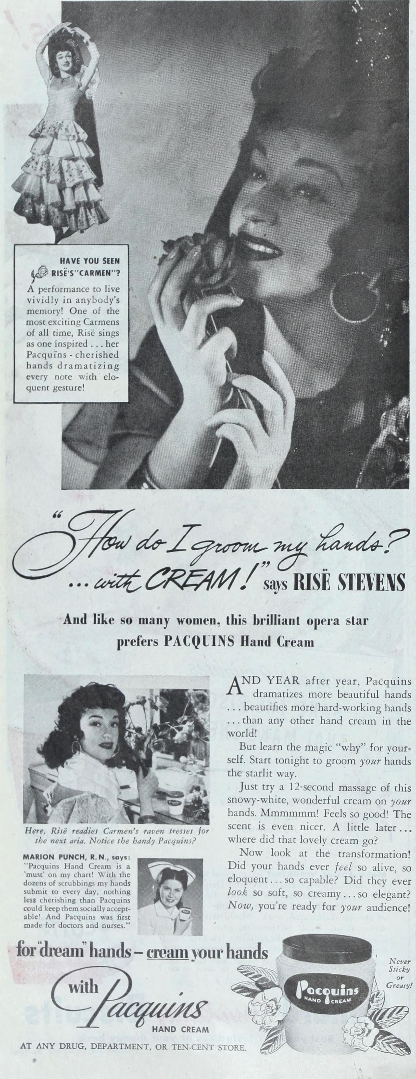 Risë Stevens advertises Pacquins Hand Cream, 1948 Title: The Ladies' home journal Year: 1889 (1880s) Authors: Wyeth, N. C. (Newell Convers), 1882-1945 Subjects: Women's periodicals Janice Bluestein Longone Culinary Archive Publisher: Philadelphia : (s.n.) Text Appearing Before Image: 158 LADIES HOME JOURNAL March, 1948 Text Appearing After Image: ... t*Zt tf%ffl4f/*p RISE S And like so many women, this brilliant opera starprefers PACQUINS Hand Cream AND YEAR after year, Pacquins-* *- dramatizes more beautiful hands.. . beautifies more hard-working hands... than any other hand cream in theworld! But learn the magic why for your-self. Start tonight to groom your handsthe starlit way. Just try a 12-second massage of thissnowy-white, wonderful cream on yourhands. Mmmmmm! Feels so good! Thescent is even nicer. A little later...where did that lovely cream go? Now look at the transformation!Did your hands ever feel so alive, soeloquent... so capable? Did they everlook so soft, so creamy... so elegant?Now, youre ready for your audience!